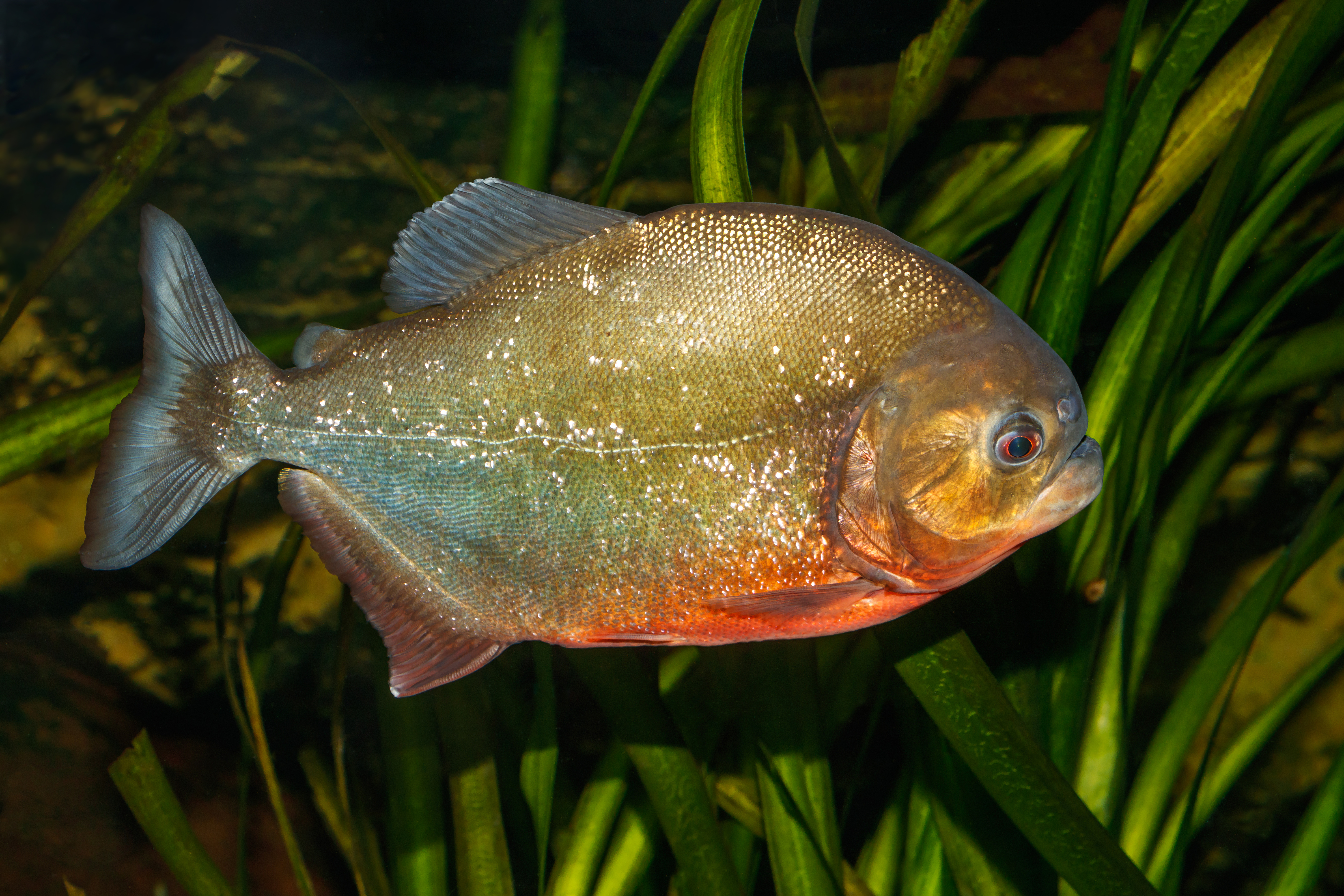 Pygocentrus nattereri Kner, 1858, Red-bellied piranha; Karlsruhe Zoo, Karlsruhe, Germany.